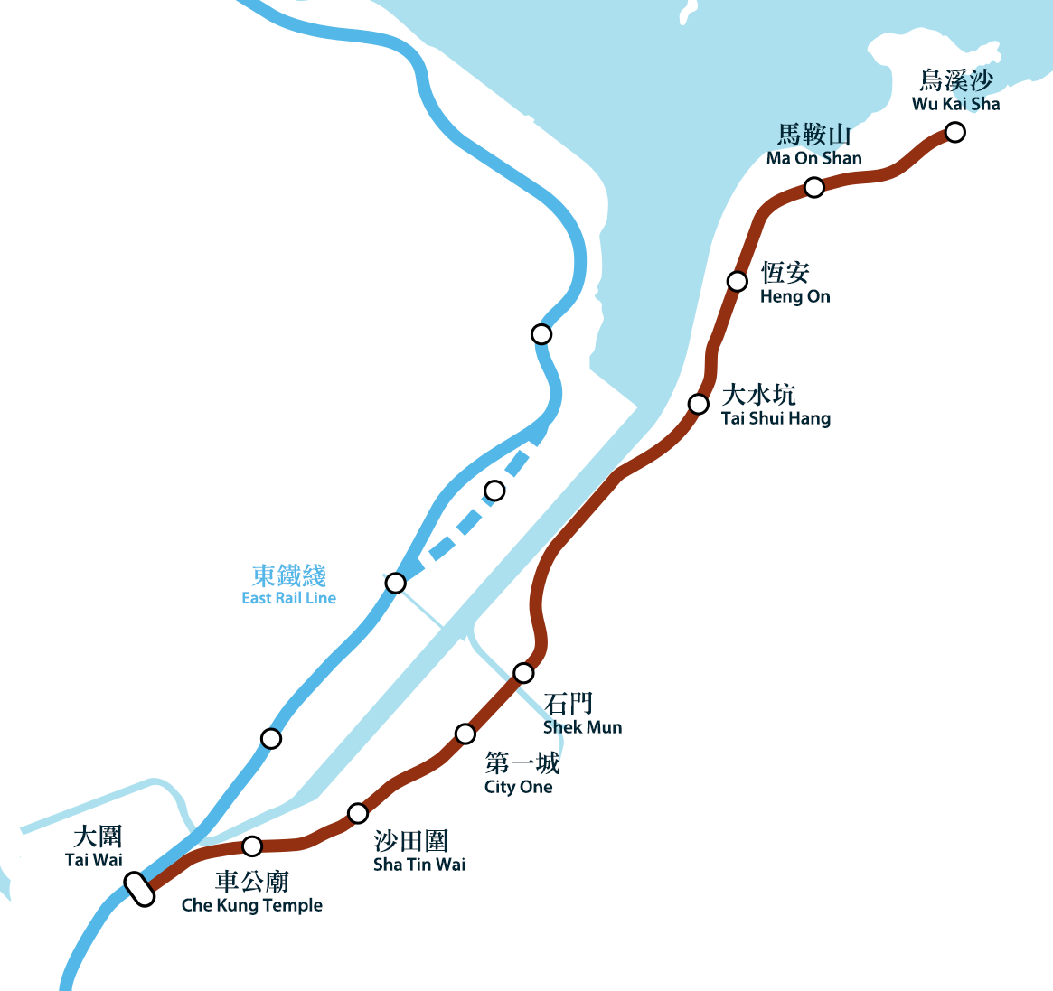 MTR Ma On Shan Line Geograpical Map